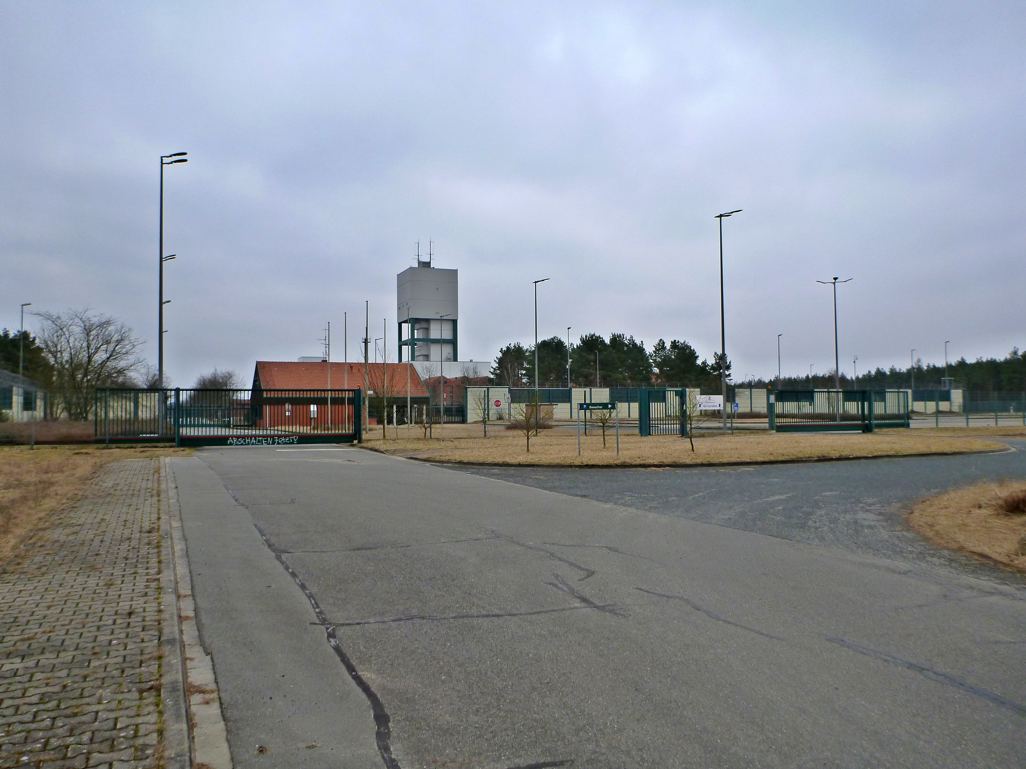 Entry to Erkundungsbergwerk Gorleben